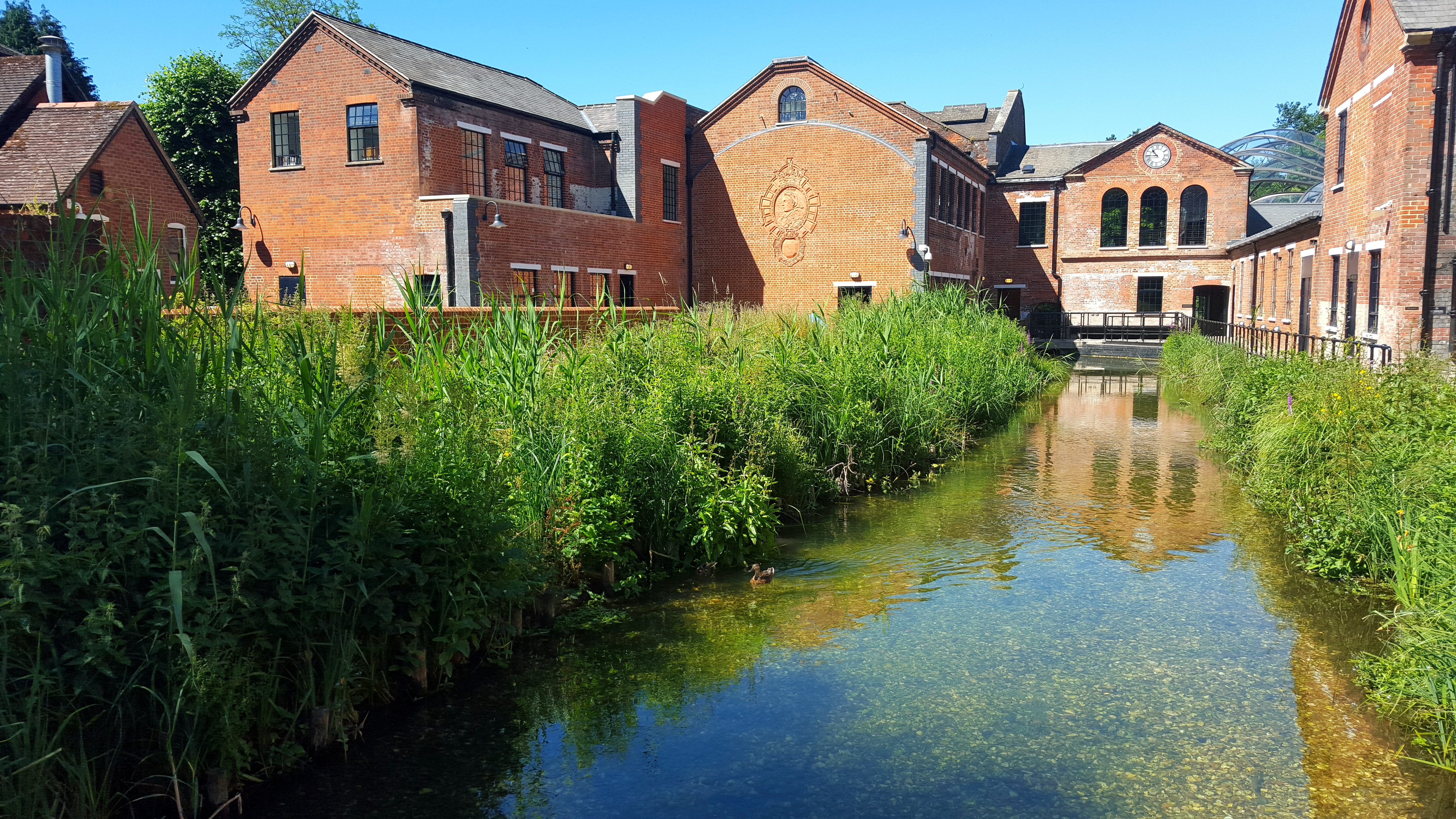 Bombay Sapphire distillery in Laverstoke Mill, near Whitchurch, Hampshire. The mill was originally used to manufacture paper for watermarked banknotes. Although a mill has stood at this location on the River Test since at least 1086, it underwent major rebuilding and expansion in the mid-19th century when the company secured a contract with the Government of India to produce Indian Rupee paper as well as Bank of England paper. The mill was restored for Bombay Sapphire to a design by Thomas Heatherwick during 2012-2014.